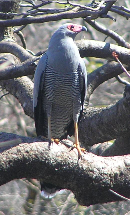 Madagascar Harrier hawk Polyborodies radiatus